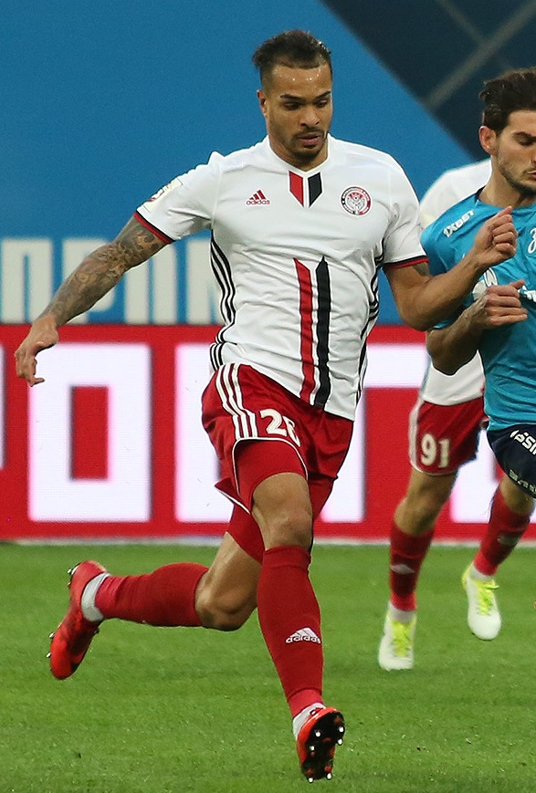 Felicio Brown Forbes with FC Amkar Perm in a game against FC Zenit St. Petersburg.